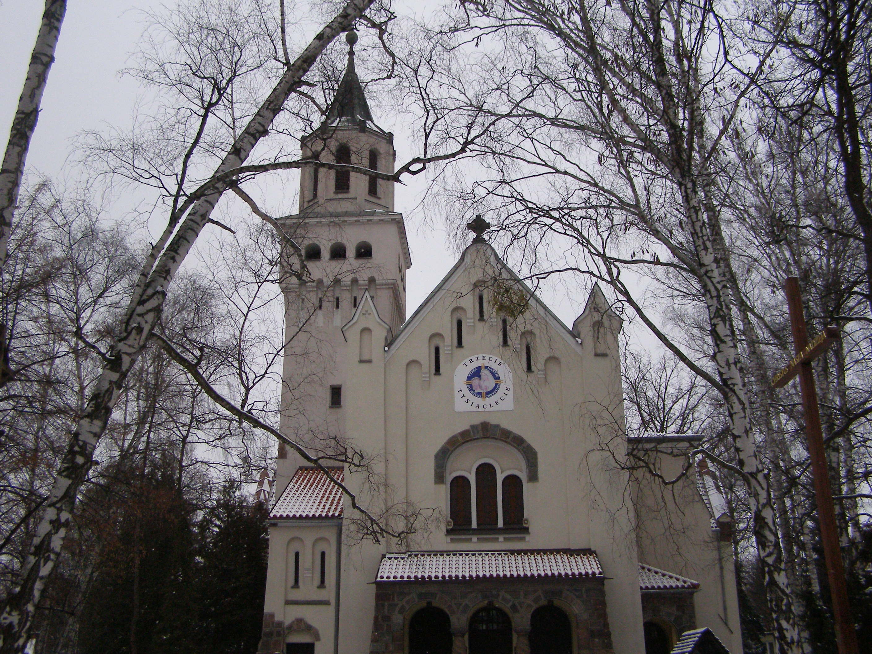 Saint Hedwig of Silesia Church in Milanówek, Poland